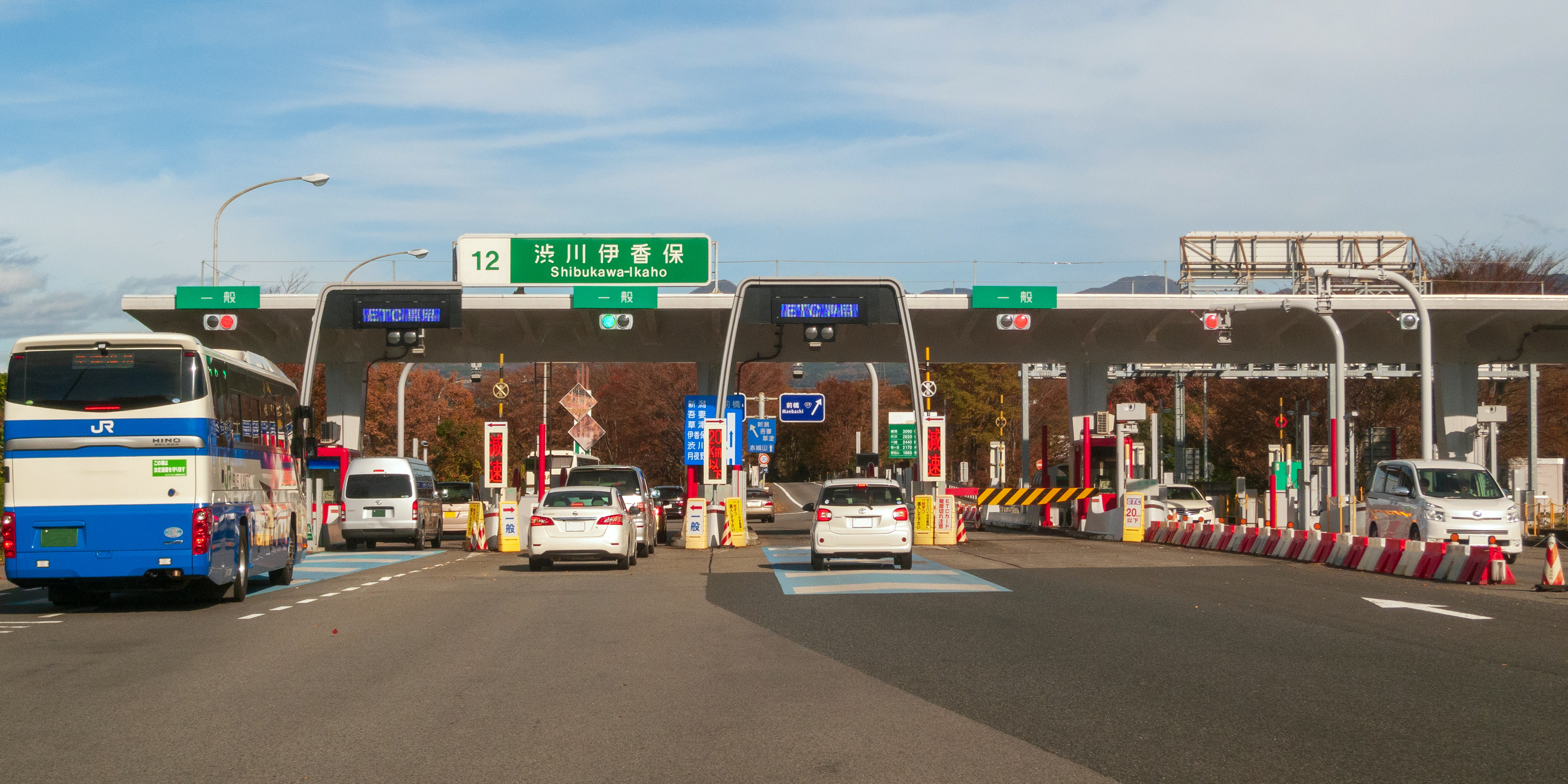 Shibukawa-Ikaho Interchange on the Kan-etsu Expressway in Shibukawa City, Gunma Prefecture, Japan